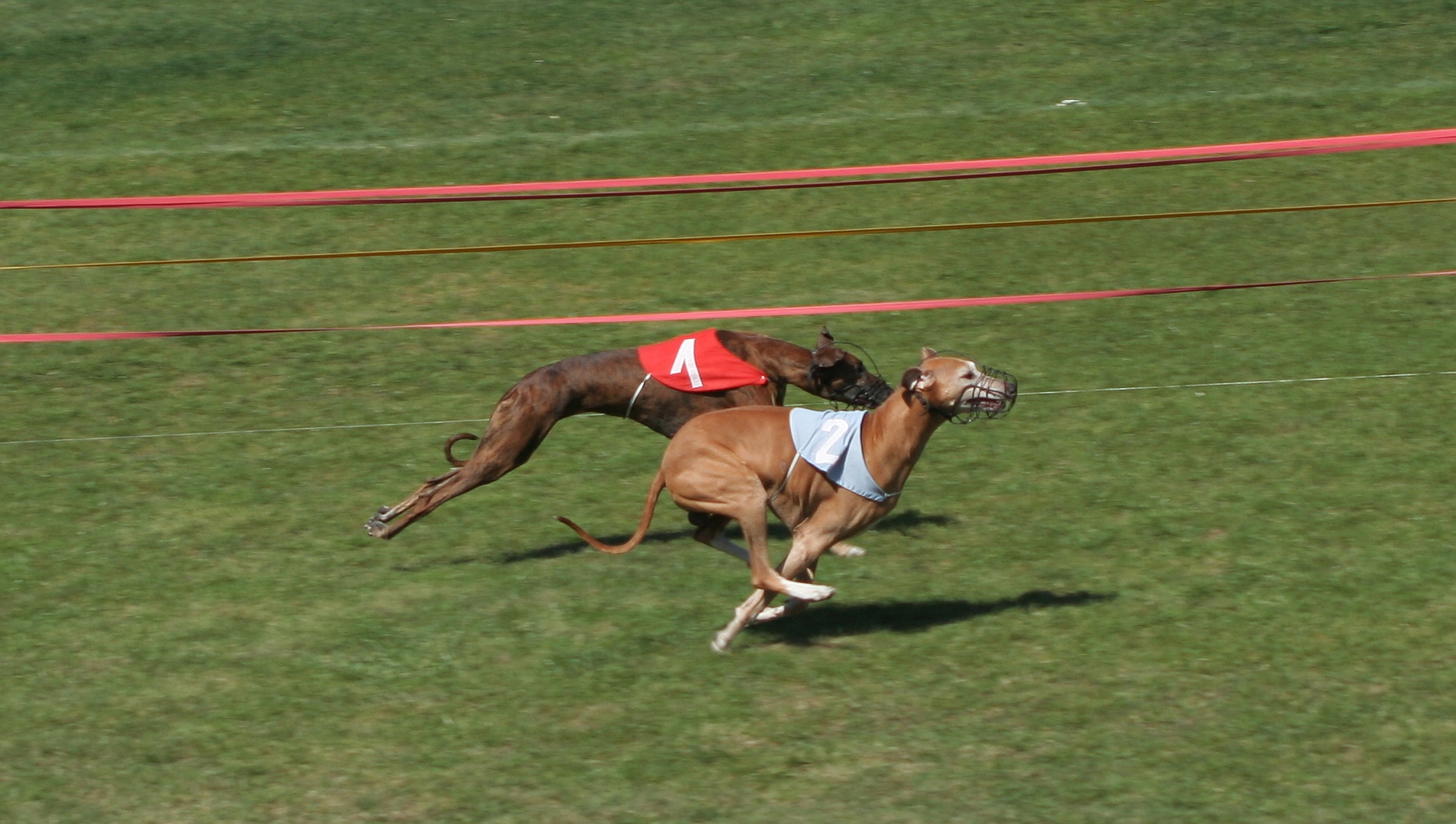 Azawakhs during the dog's racing in Bytom - Szombierki, Poland.